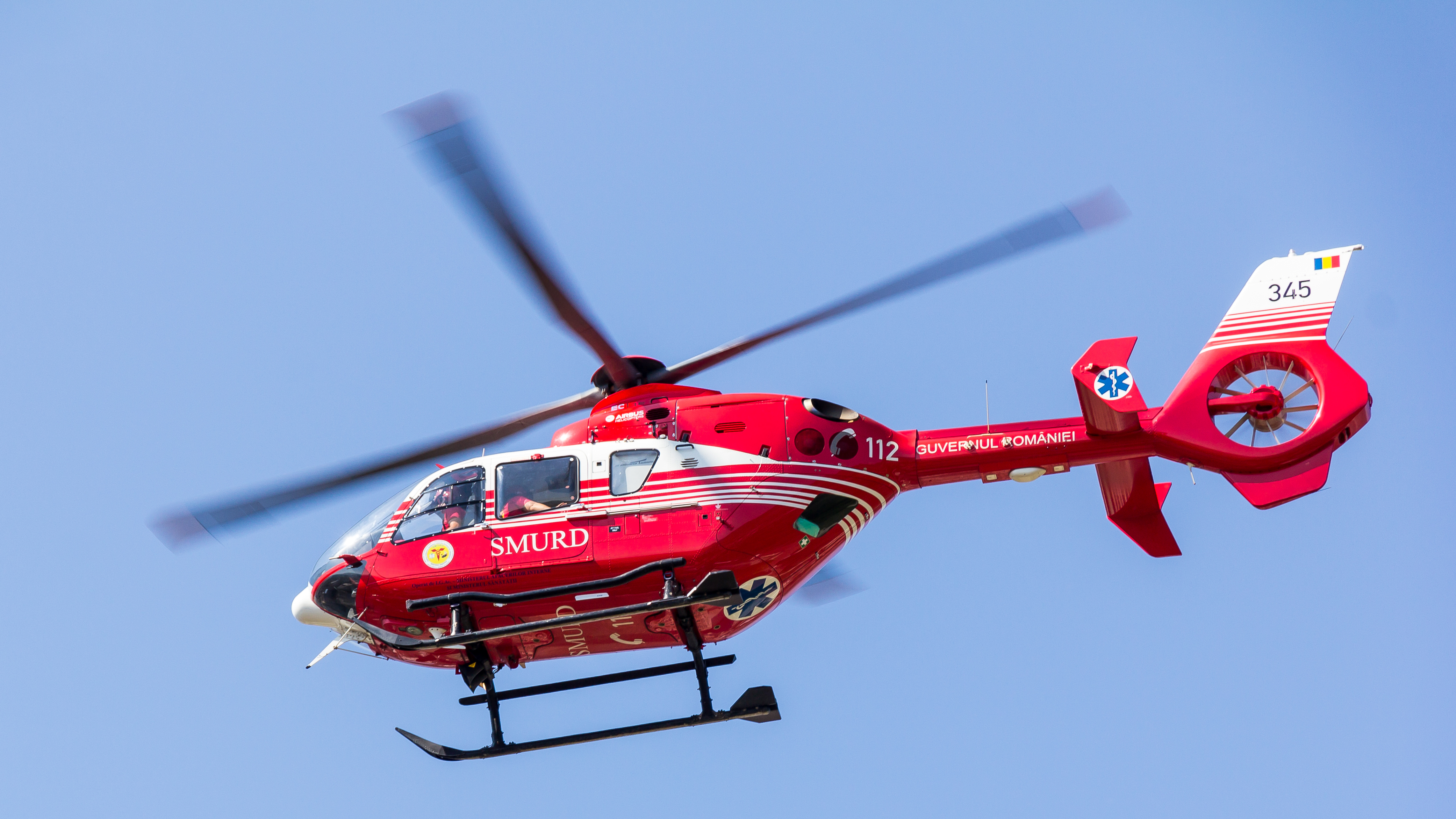 SMURD 345 - Airbus Helicopter EC 135, Romania. Starting from a hospital in Hațeg